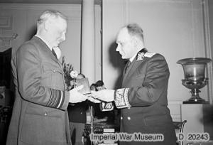 Air Chief Marshal Sir Arthur Harris (left) receives the Order of Suvarov from the Soviet Ambassador Fedor Gusev (right), at the Soviet Embassy in London.